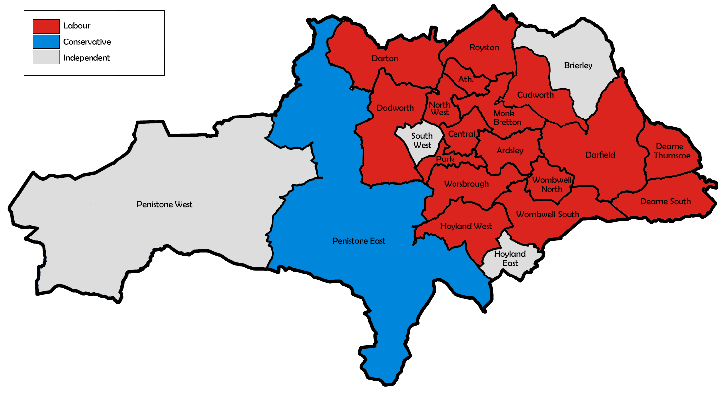 Ward map of Barnsley council with political colouring for the 2002 election.